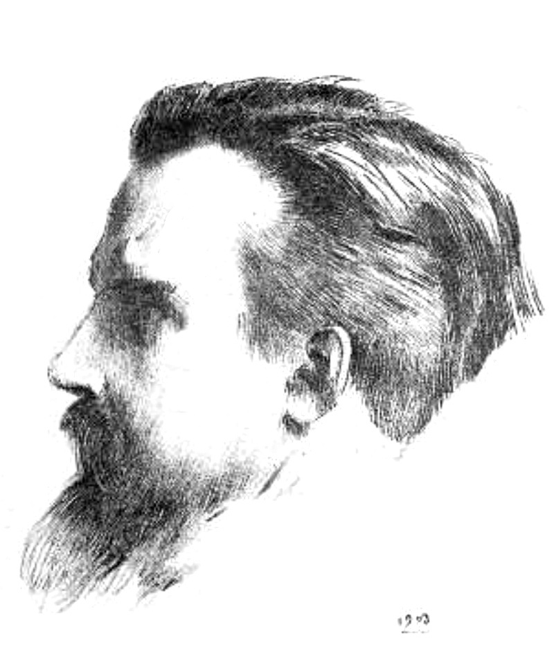 Portrait of Maurice Denis (1870-1943)